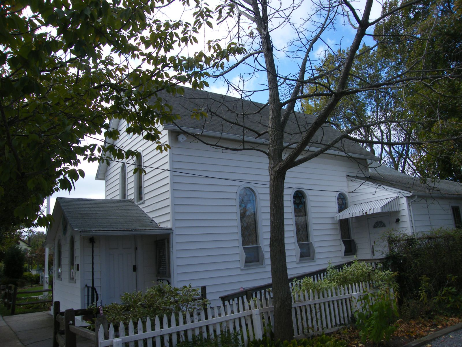 Tifferth-israel Synagogue National Registry